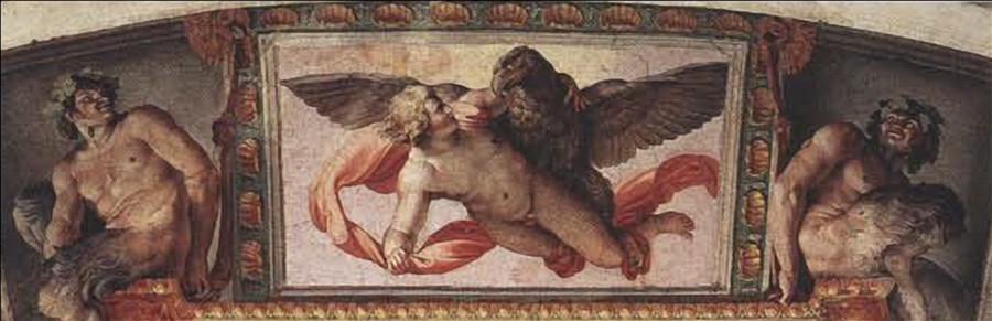 Rape of Ganymede